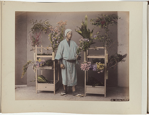 album 28.0 h x 38.0 w cm